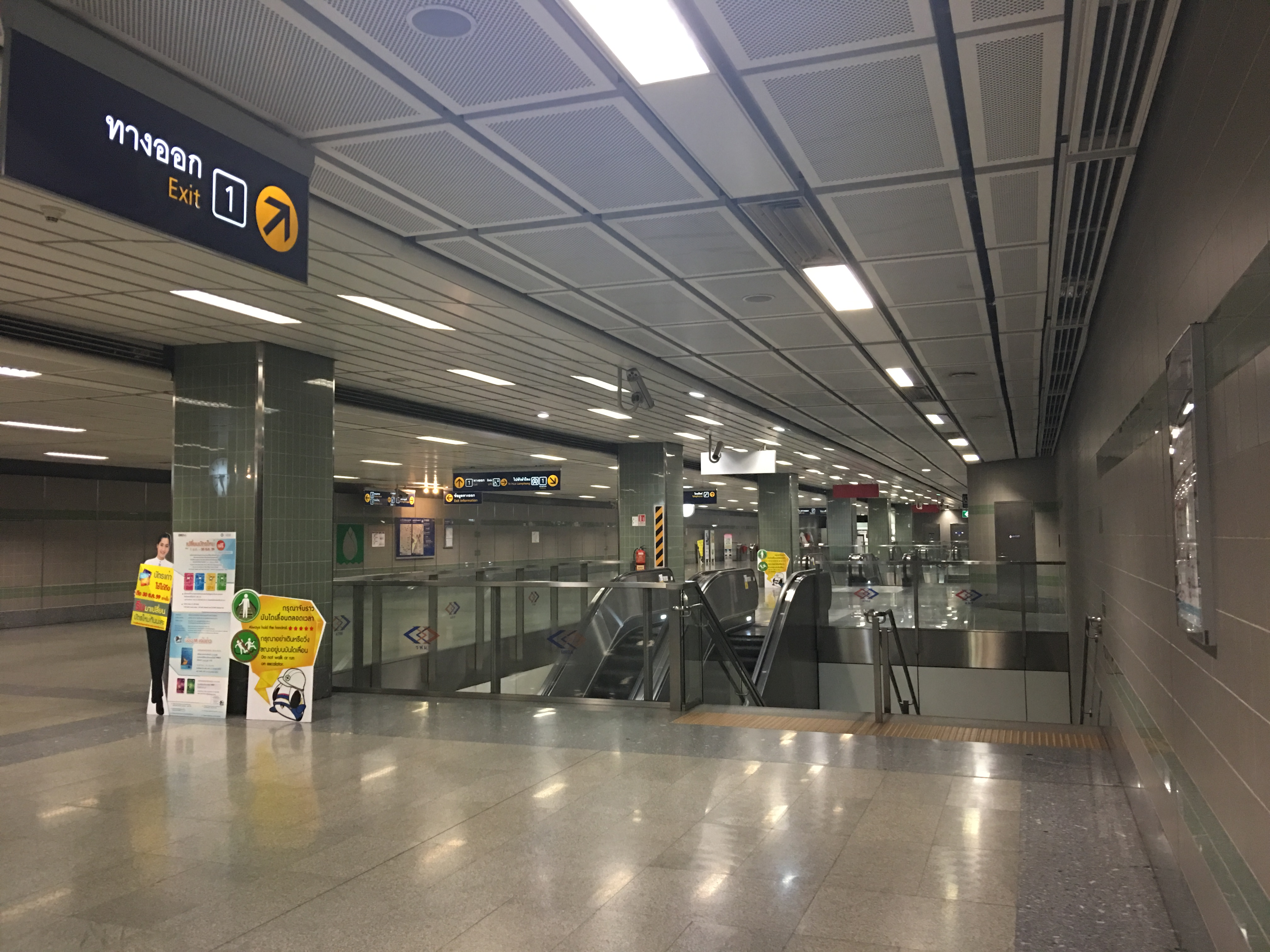 The concourse level of Lumphini Station